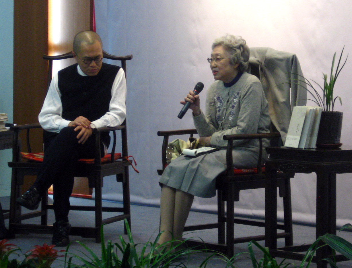 Zi Zhongyun at her new book conference with Leung Man-tao，in 2011.10.8